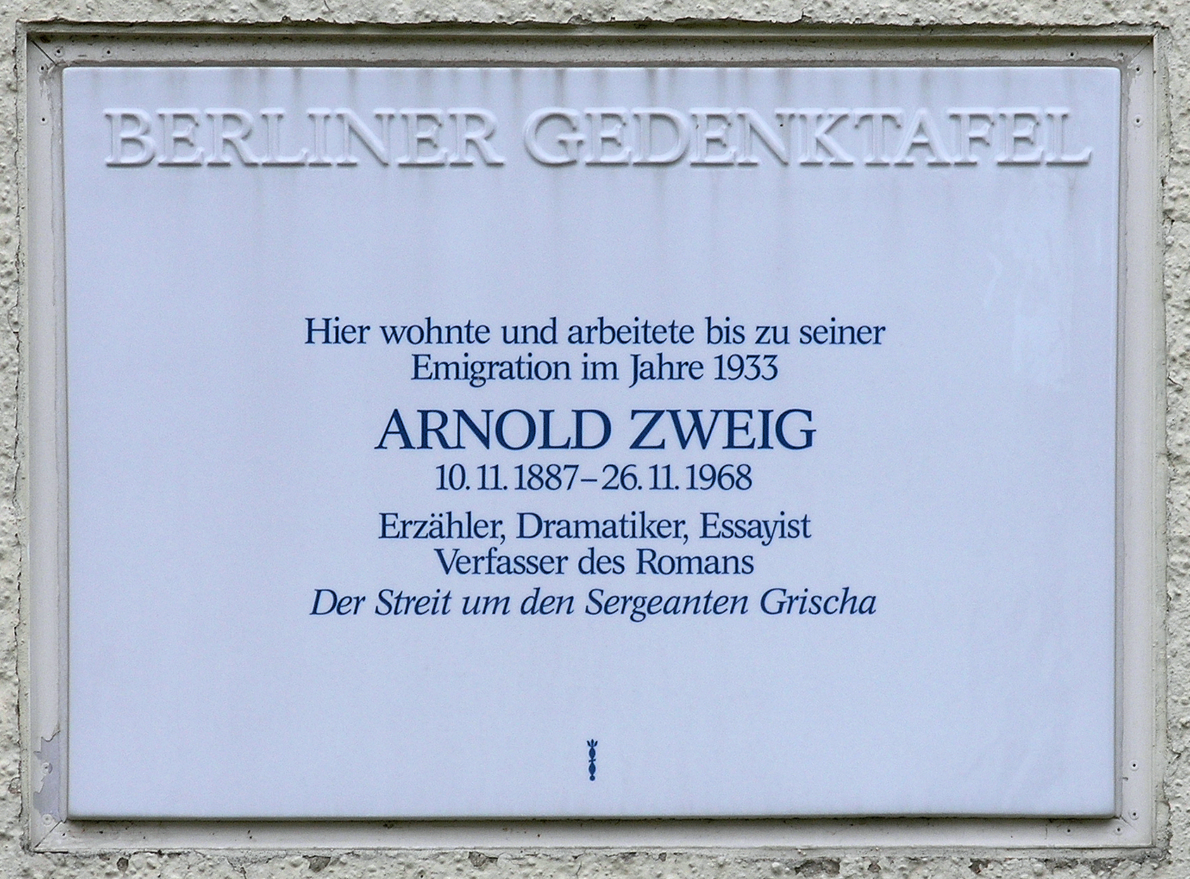 Berlin memorial plaque, Arnold Zweig, Zikadenweg 59, Berlin-Westend, Germany Koordinate:52°29′51″N 13°15′59″E / 52.4975°N 13.26639°E